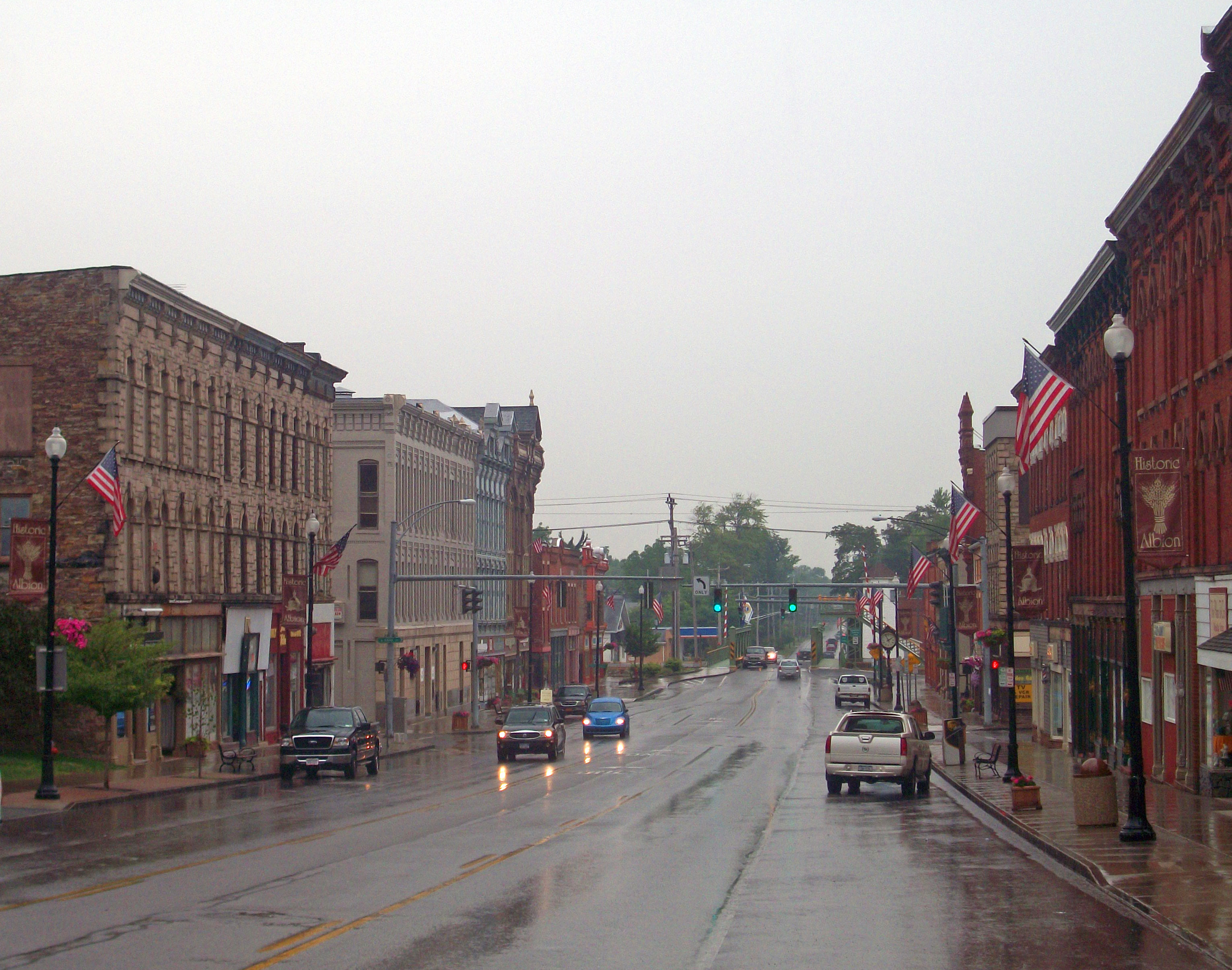 Looking north along Main Street (NY 98) in the downtown historic district, Albion, NY, USA